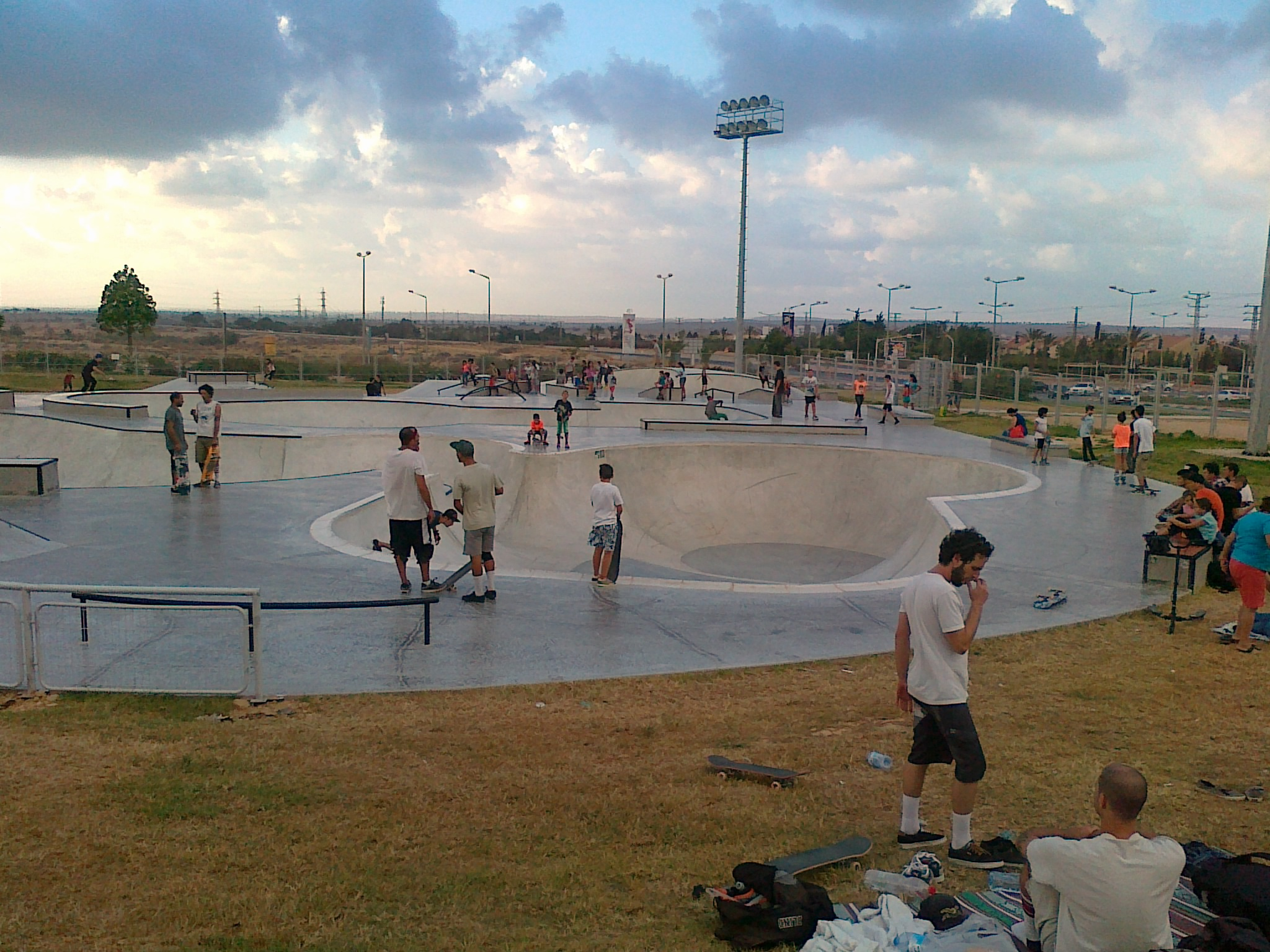 BSSP-Beer Sheva SkatePark, 2013